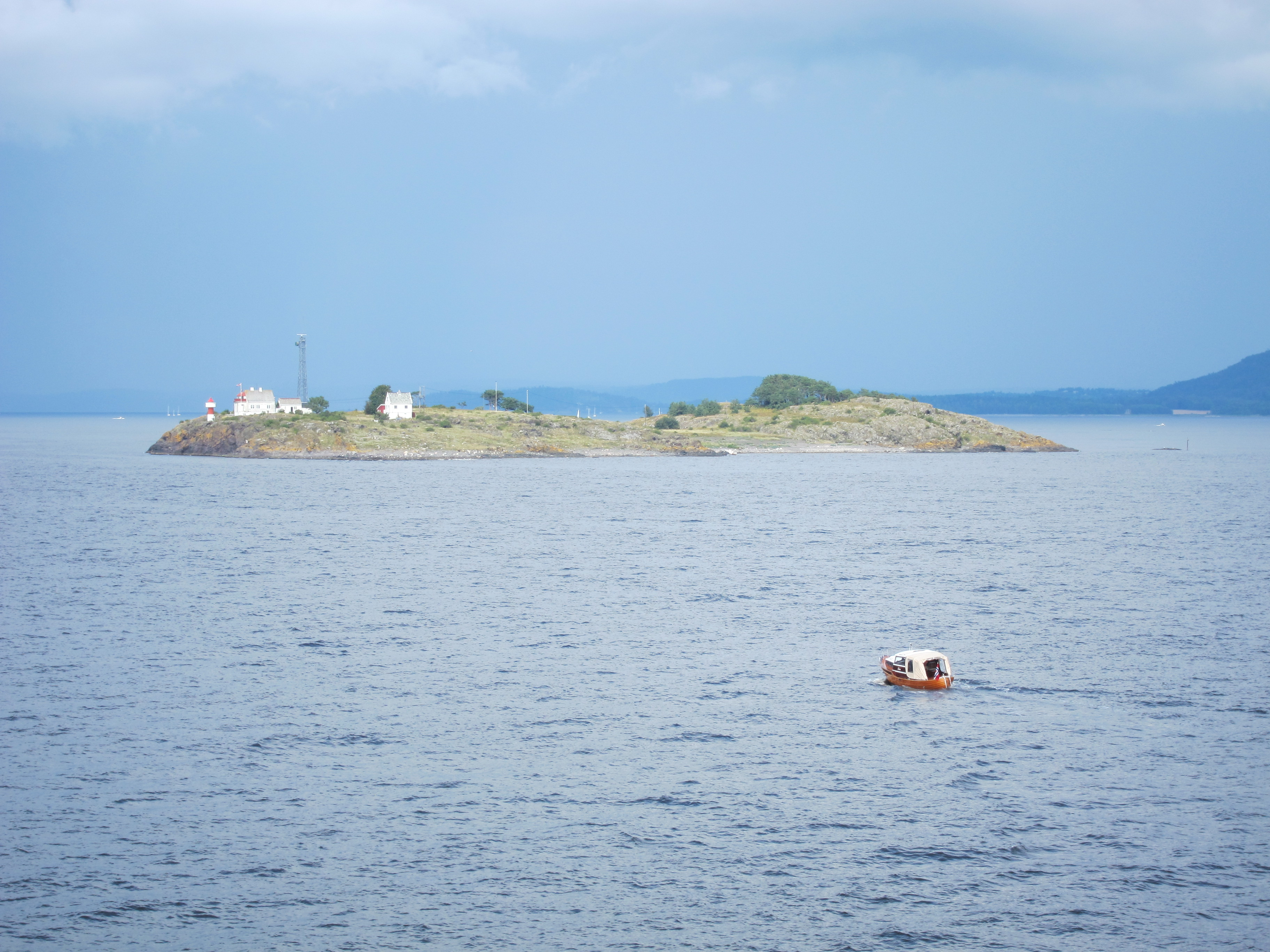 The lighthouse Gullholmen, west of Moss city in southern Norway